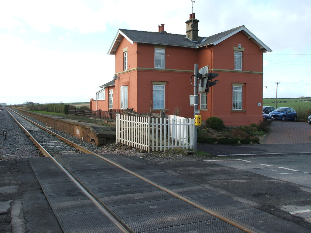 Speeton railway station (site), YorkshireOpened in 1847 by the York & North Midland Railway on its line from Hull to Scarborough, this station closed in 1970. View west, just before the line curves northwards towards Filey and Scarborough.